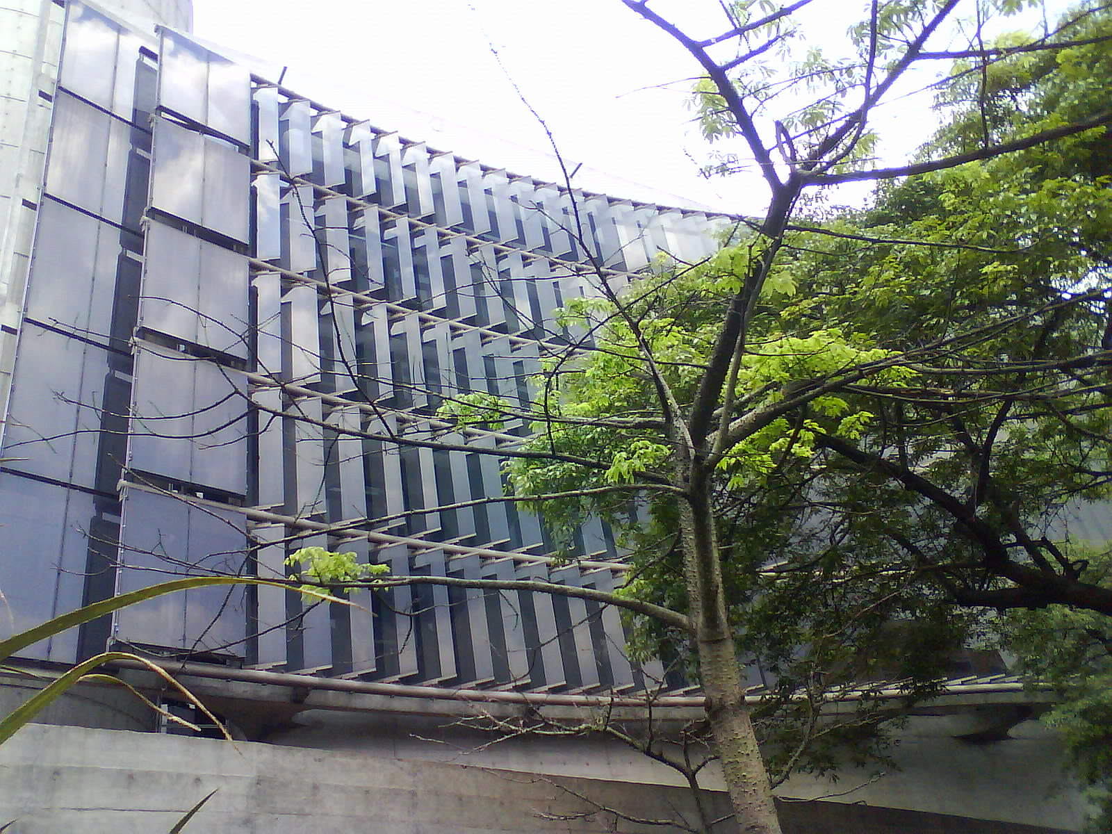 São Paulo Center for Jewish Culture (House of Culture of Israel). Located in the district of Pinheiros, São Paulo city, Brazil.